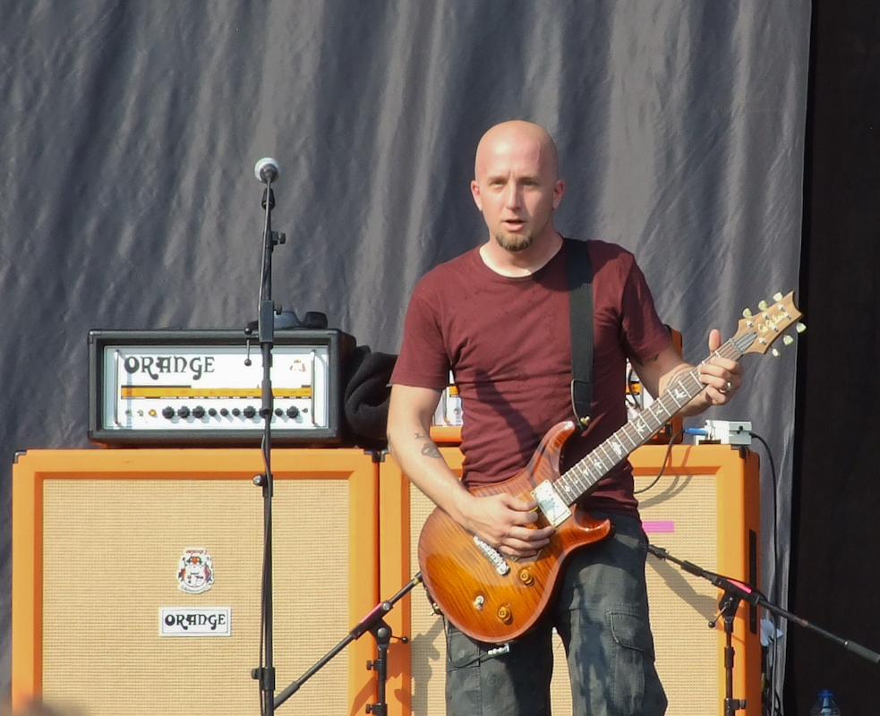 Sonny Mayo, replacing Dave Fortman, as a guitarist of the American rock band Ugly Kid Joe, performing at Sofia Rocks Fest 2012, Bulgaria.